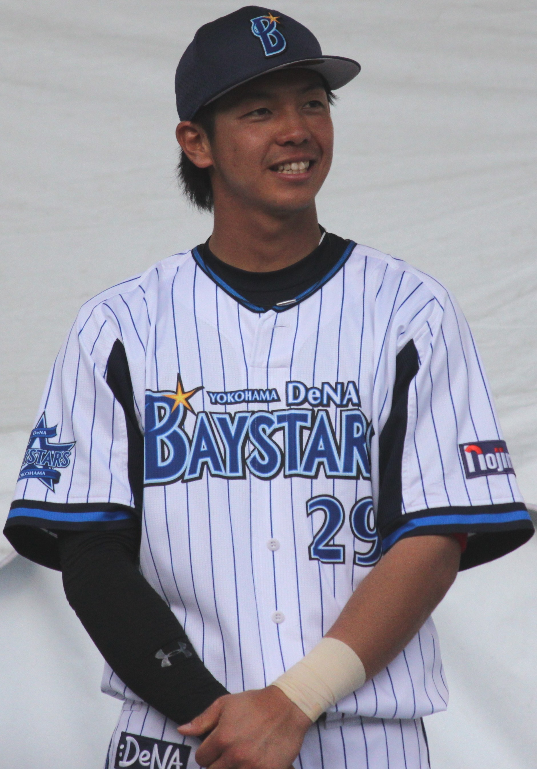 Hiroyuki Shirasaki, infielder of the Yokohama DeNA BayStars, at Yokohama Stadium.